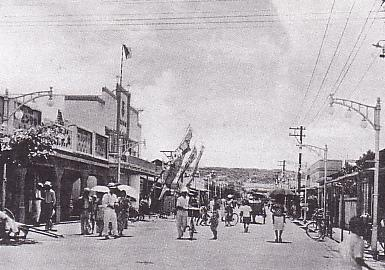 Tinian in the Japanese Period